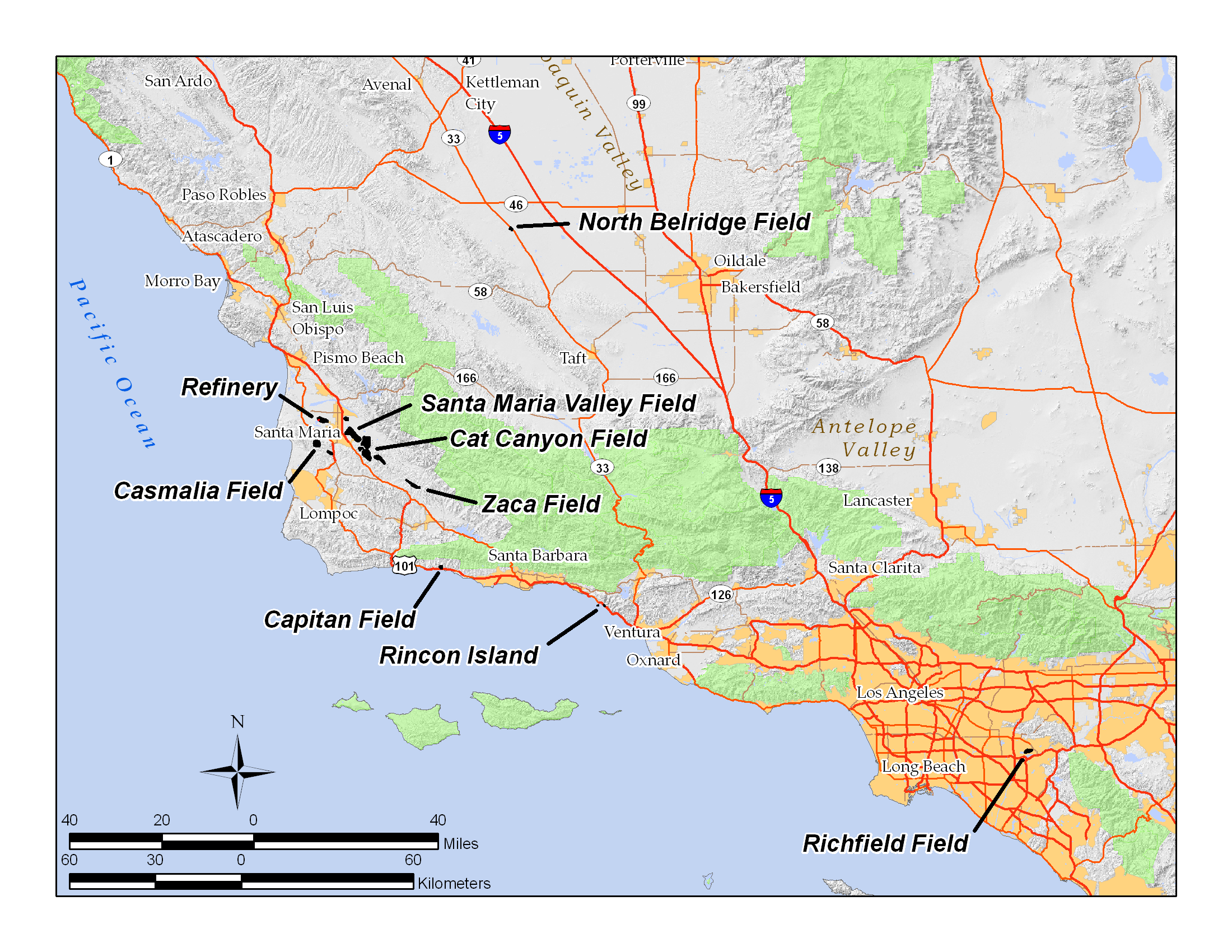 Locations of Greka facilities. All data on this map is in the public domain. Compilation by self, using ArcGIS 9.3. Boundaries digitized around active wells queried from DOGGR database August 2009. GFDL/equivalent.